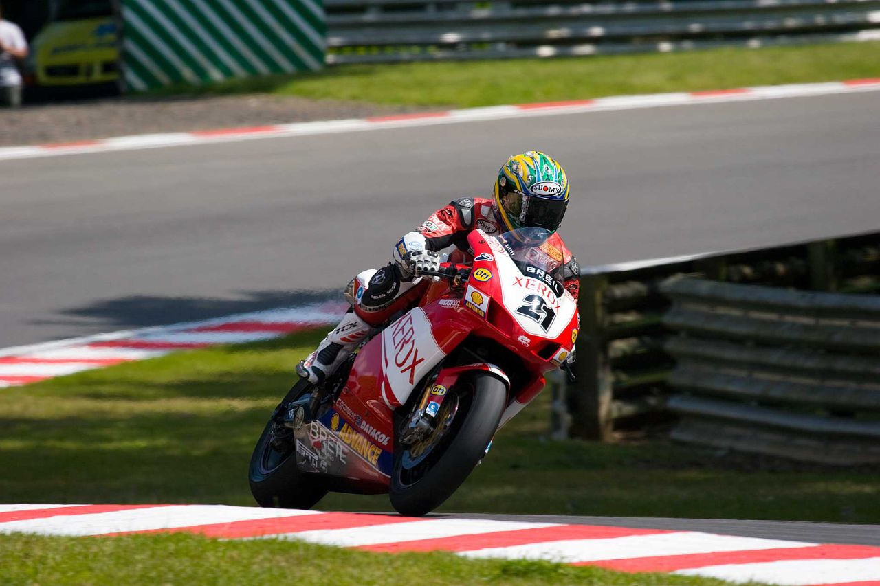 WSBK Round 10 Brands Hatch 2007